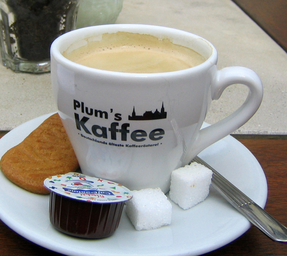 a Plum's cup of coffee